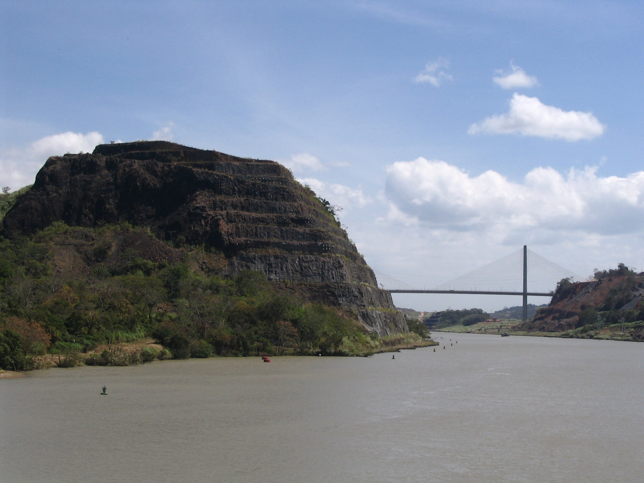 Gold Hill and Centennial Bridge seen while cruising in the Gaillard Cut aboard the MS Maasdam.